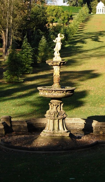 Victorian Fountain, Dunorlan Park A history of this fountain can be found here